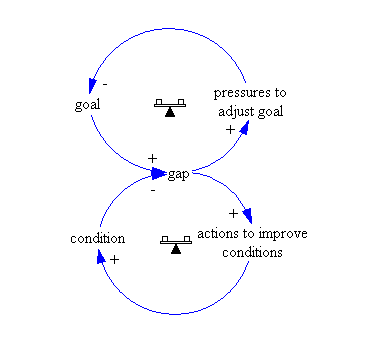 Causal loop diagram - system archetype "Eroding goals"